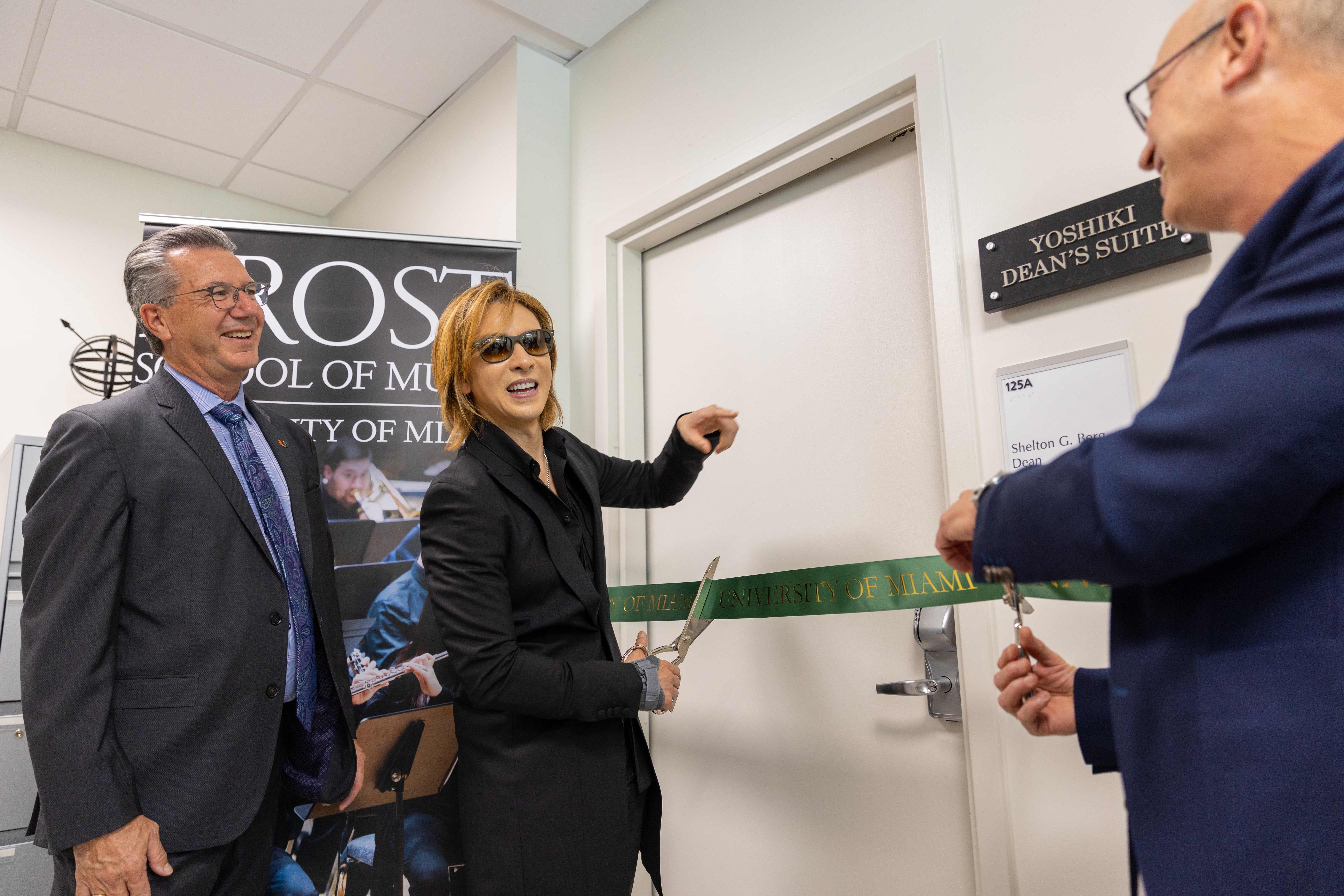 Yoshiki cut the ribbon outside the office of Dean Shelton Berg of the Frost School of Music at the University of Miami, where he held a free masterclass for frost-build students and fans.